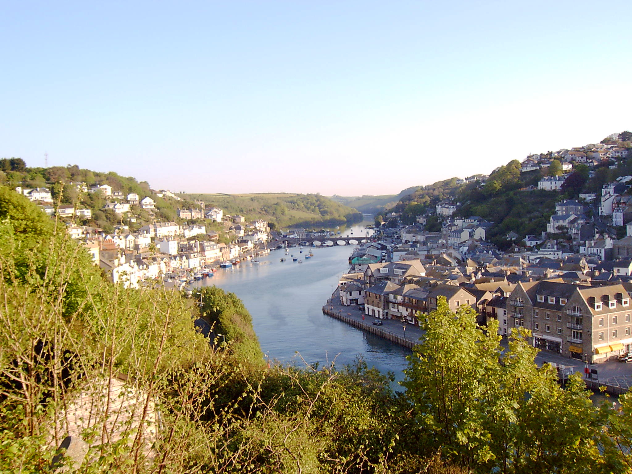 View upriver at Looe in Cornwall, UK.